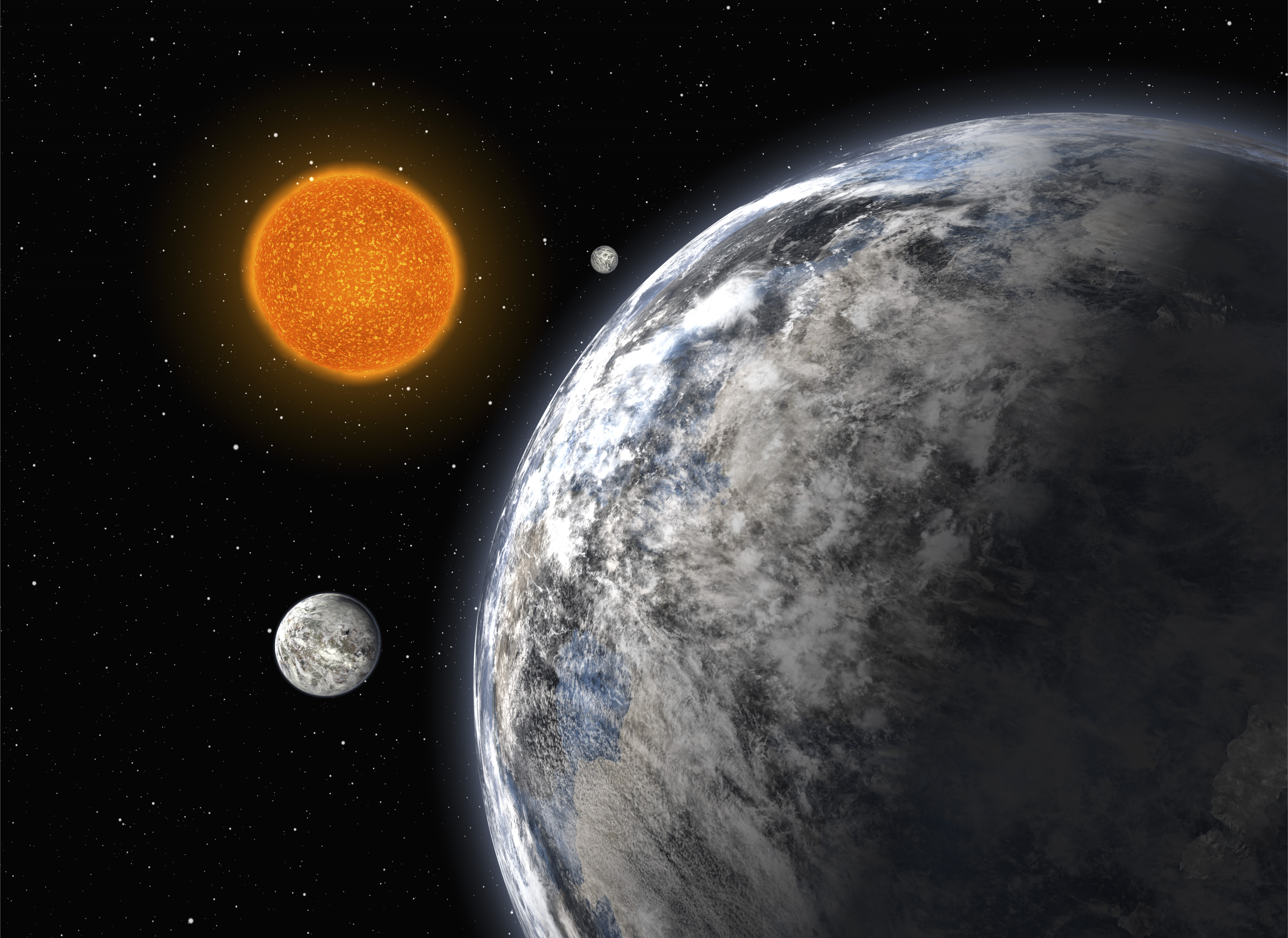 Artist's impression of the trio of super-Earths discovered by an European team using the HARPS spectrograph on ESO's 3.6-m telescope at La Silla, Chile, after 5 years of monitoring. The three planets, having 4.2, 6.7, and 9.4 times the mass of the Earth, orbit the star HD 40307 with periods of 4.3, 9.6, and 20.4 days, respectively.